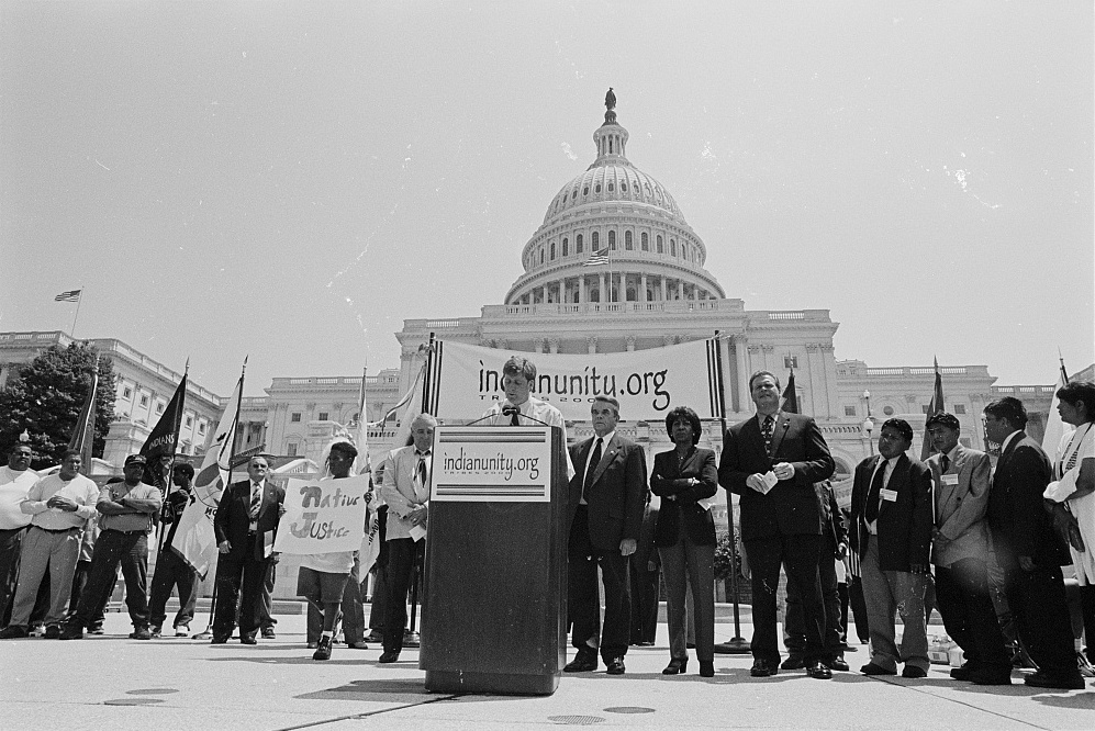 Representative Patrick J. Kennedy II speaking at a rally for American Indian and tribal unity in front of the U.S. Capitol as Native Americans, Representative Maxine Waters, Senator Ben Nighthorse Campbell and others stand behind him